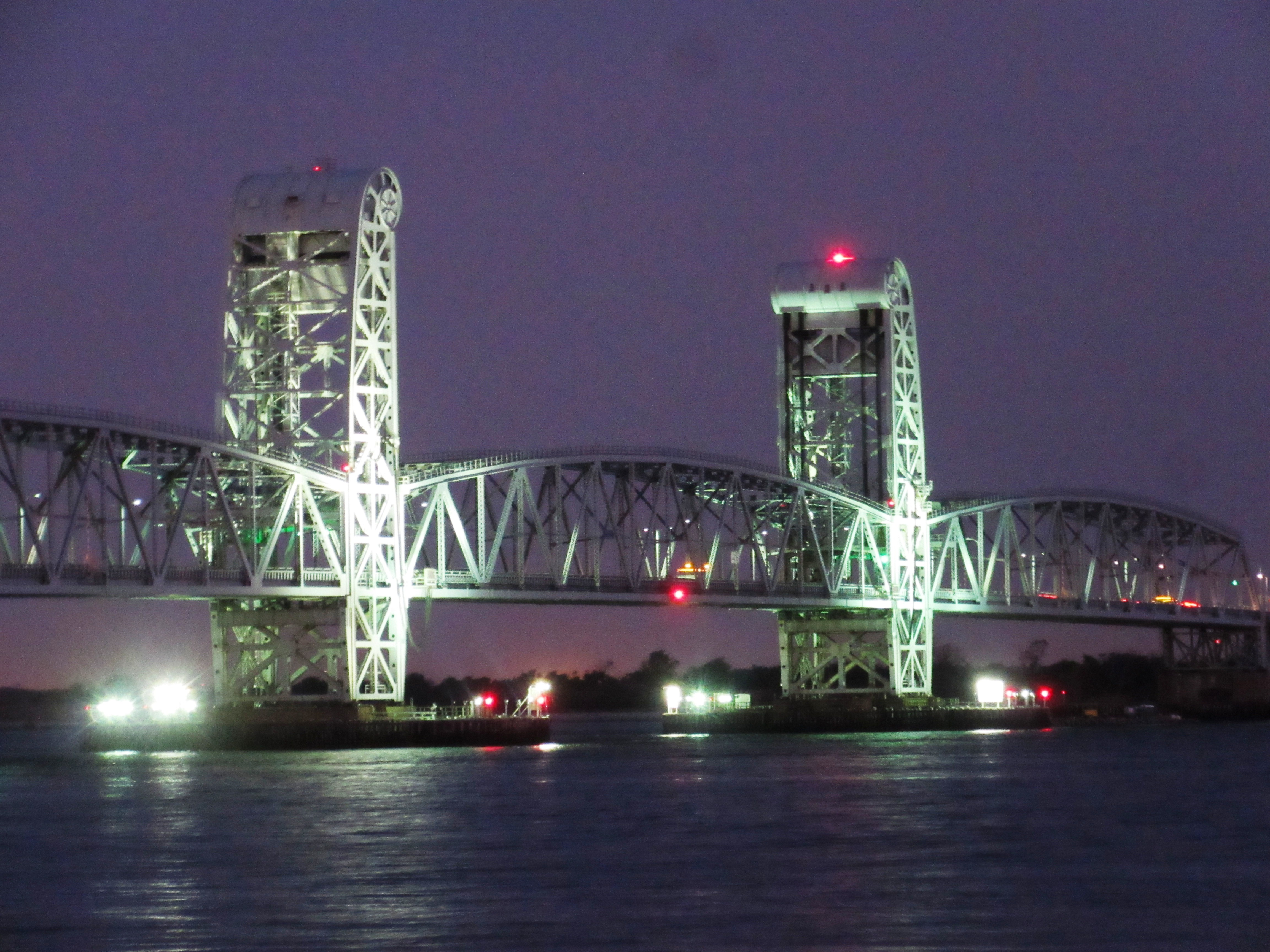 Newly replaced brighter LED security lights on piers beneath bridge are pictured here. Security and marine navigation lights at MTA Bridges and Tunnels’ Marine Parkway-Gil Hodges Memorial Bridge, destroyed by Superstorm Sandy, are functioning once again under a $686,000 project that was completed ahead of schedule and within budget. MTA Bridges and Tunnels